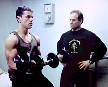 Author: Mike Torchia Source: Mike Torchia URL: Operation Fitness Mike Torchia authorized use.